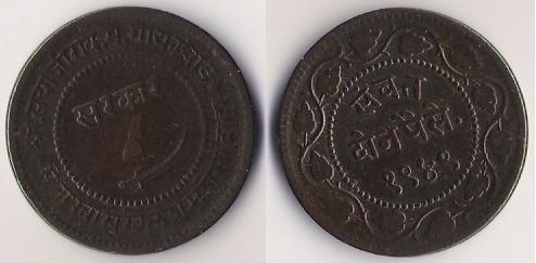 2-paisa coin issued in 1892.